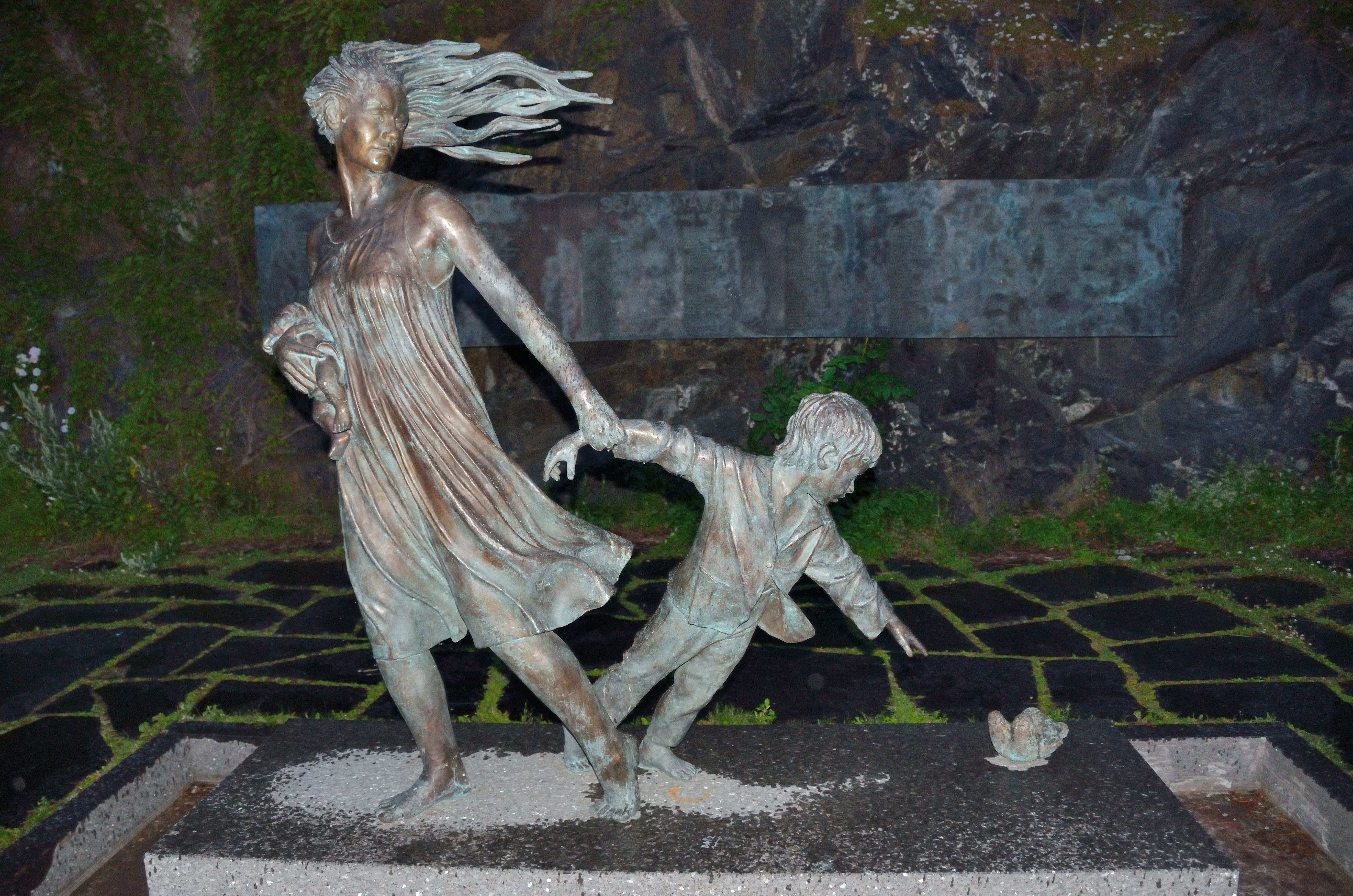 MS Scandinavian Star statue memorial Scandinavian Star-Ulykken Billedhugger Jon Tongerson 7 April 2006 MS Scandinavian Star was a car and passenger ferry that caught fire in 1990, killing 158 people.